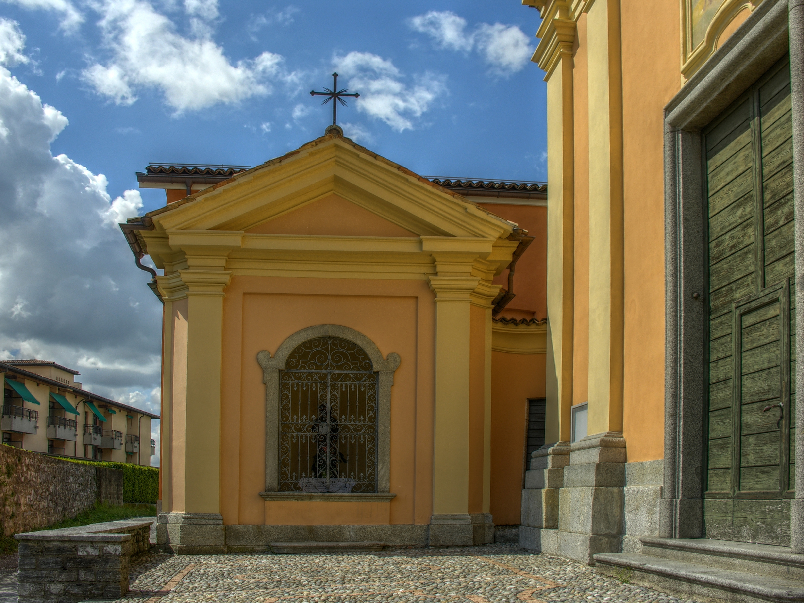 Morbio Inferiore, Tessin, Switzerland - Detail of the chapel of San Rocco church